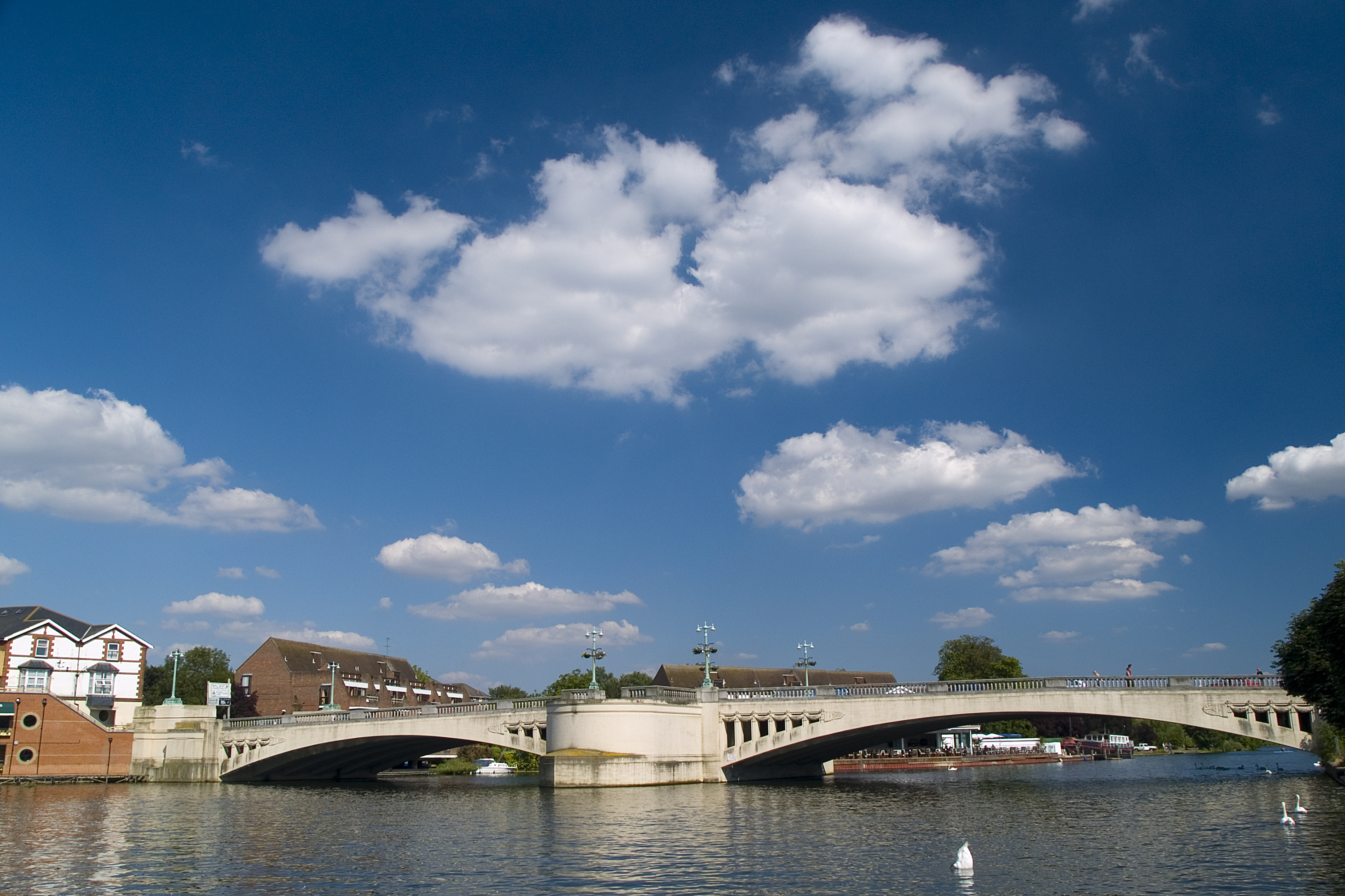 Caversham Bridge, across the River Thames in the English town of Reading, viewed from upstream. For more information, see the Wikipedia article Caversham Bridge.